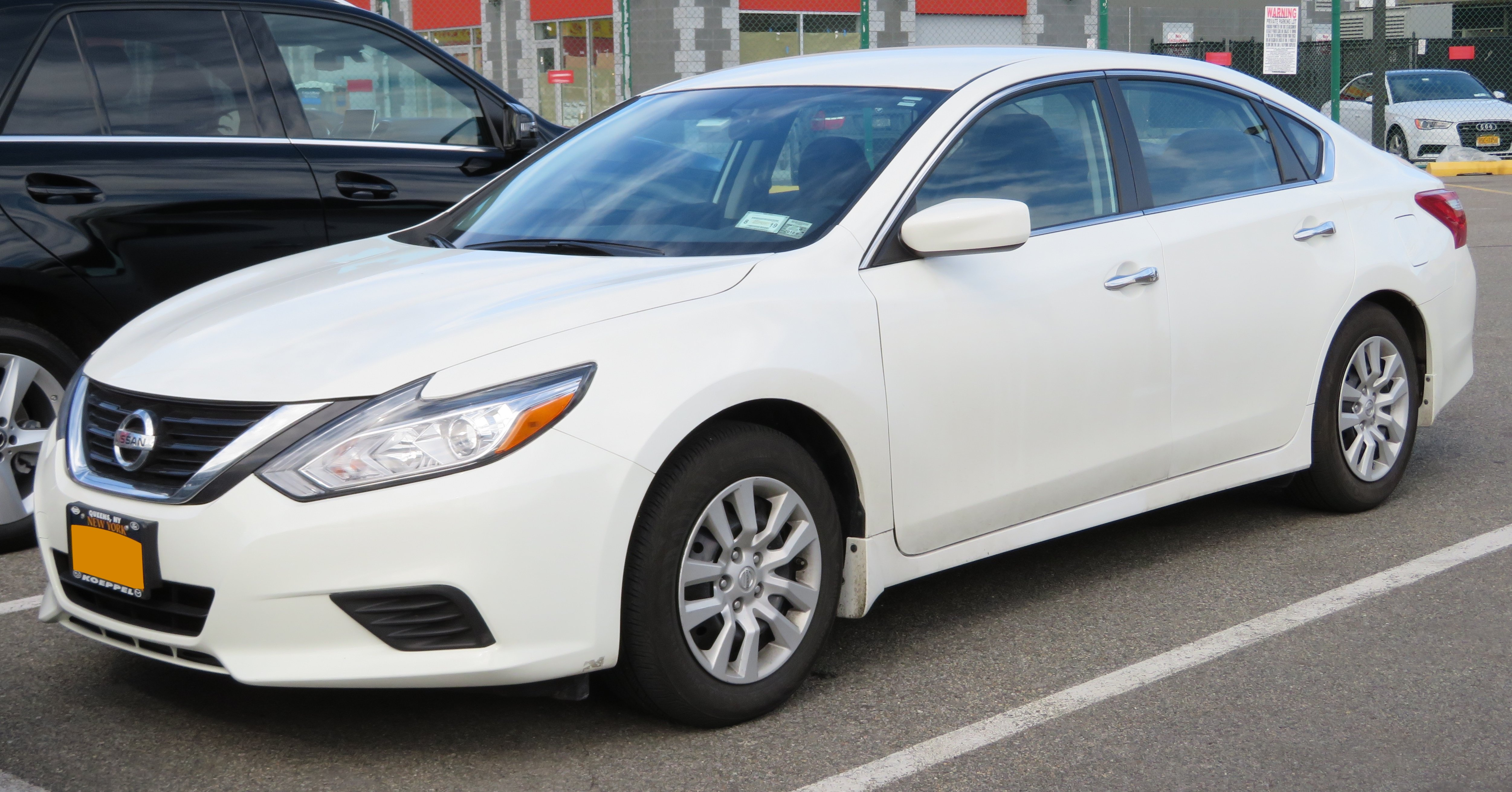 In Flushing, New York.